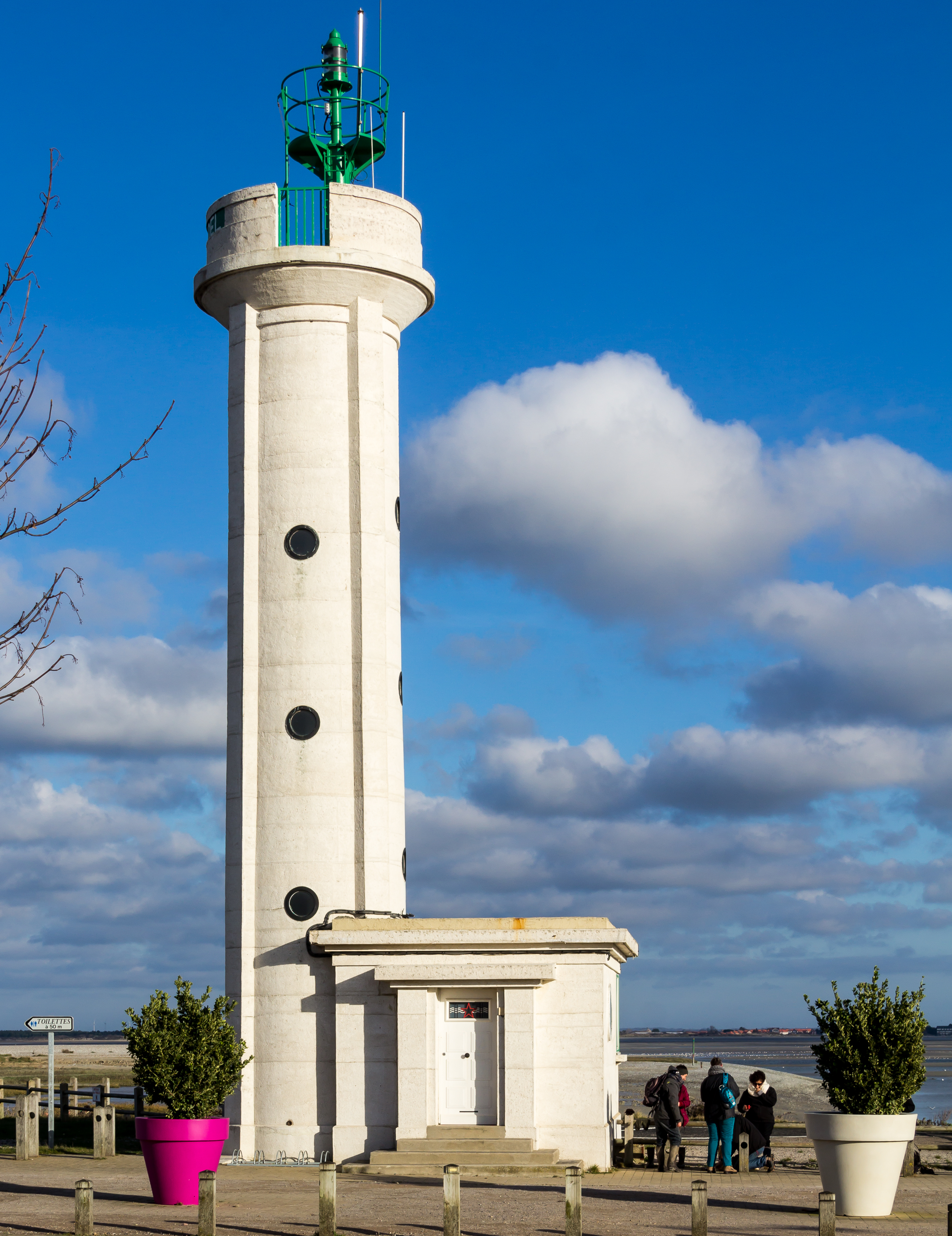 Phare du Hourdel, Picardi